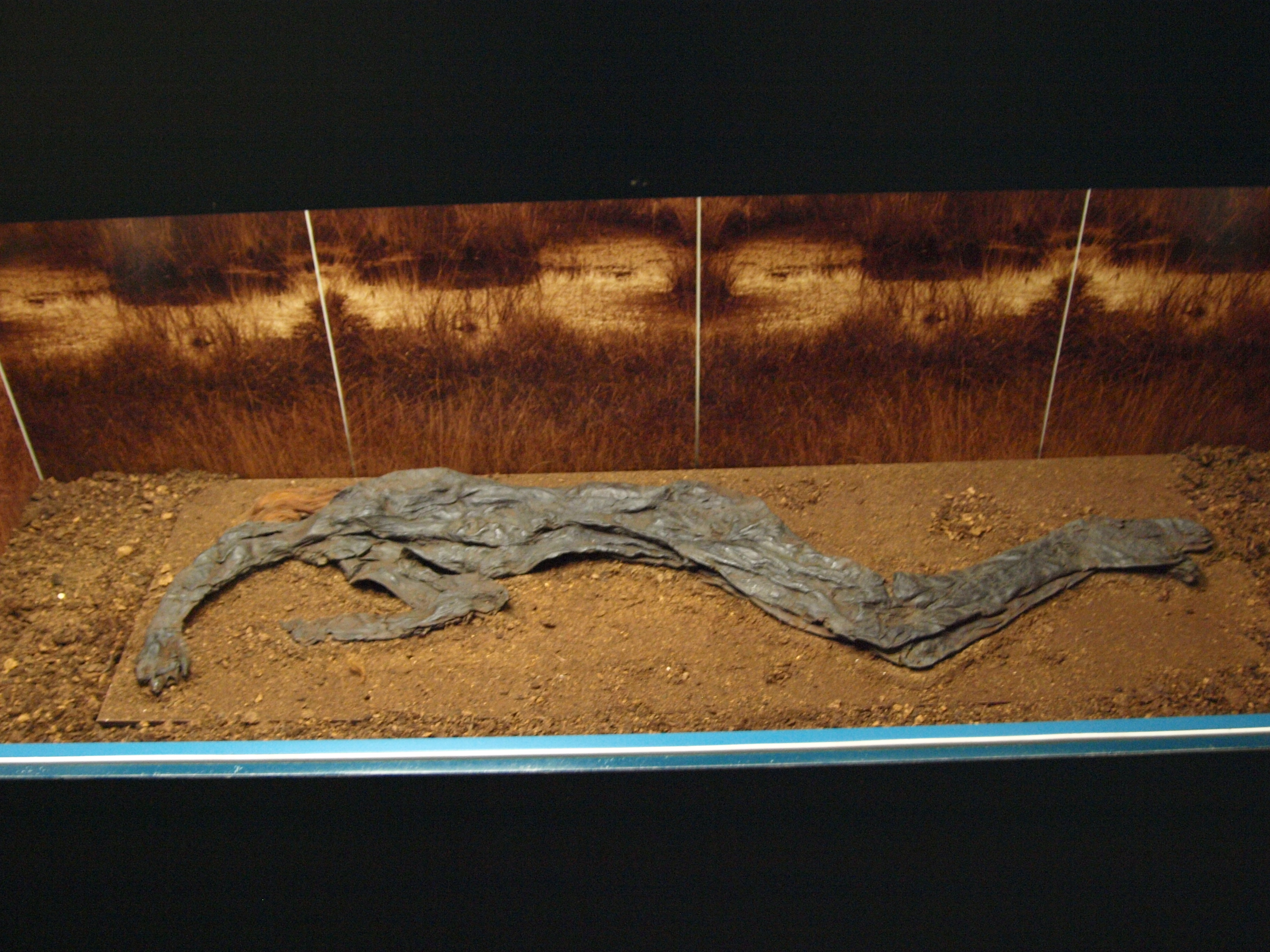 The bog body of the Damendorf Man on display at Archäologisches Landesmuseum Gottorf Castle, Schleswig Germany. Found in 1900 in the Seemoor near Damendorf. C14 dated beween 135 and 335 AD.